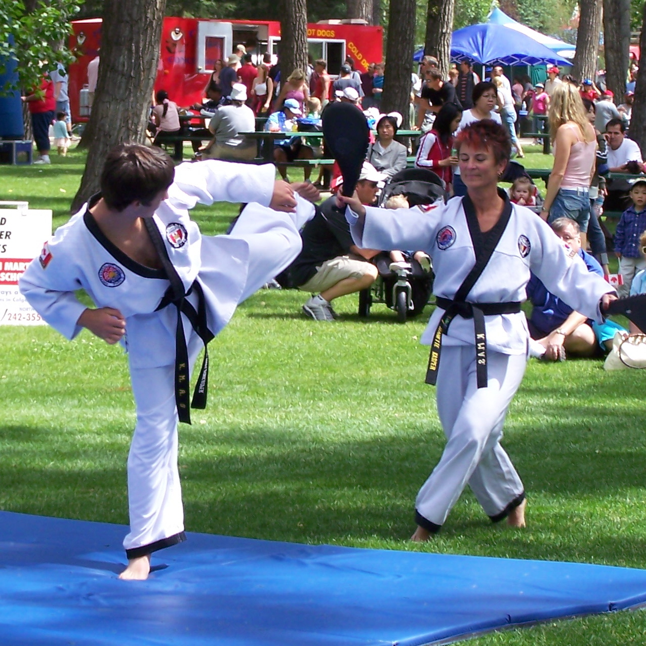 People from the Korean Martial Arts School in Calgary, Alberta, Canada do a demonstration. This picture was taken on Canada Day 2007 in Prince's Island.